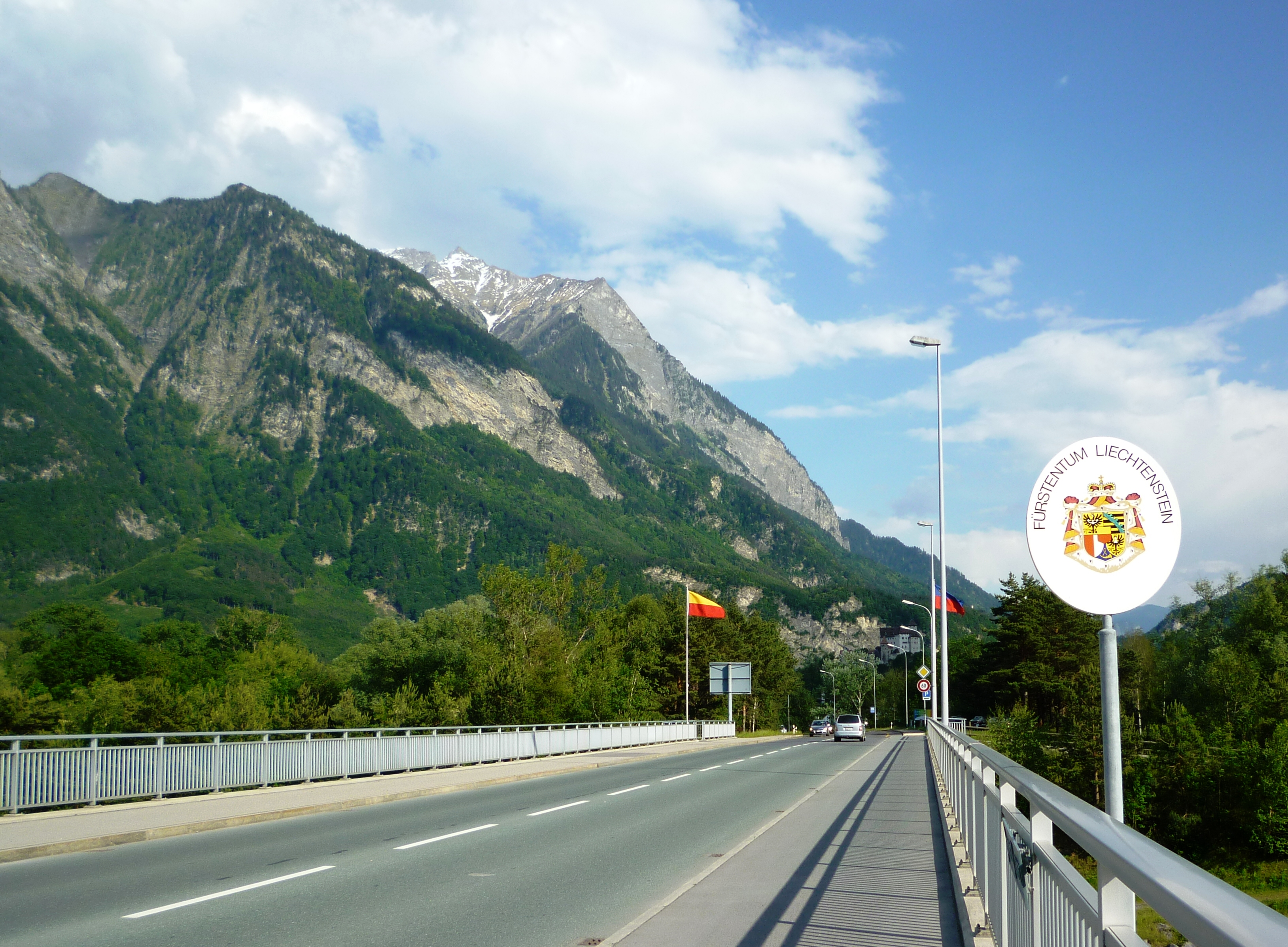 The border between Liechtenstein (Balzers) and Switzerland (Trübbach). In the background, Gutenberg Castle and the Liechtenstein Alps.